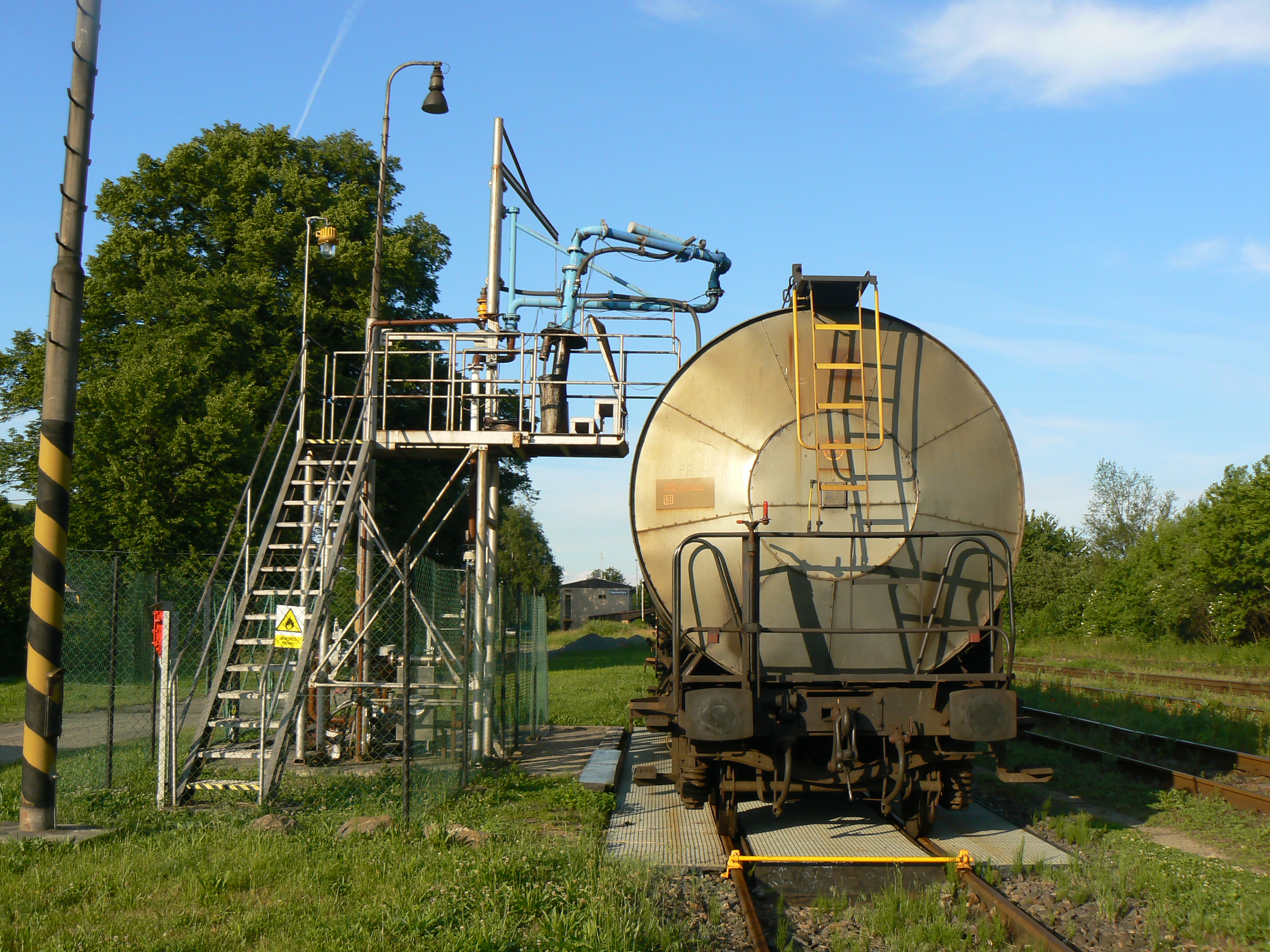 Oil filling station in Nemotice, Czech Republic.